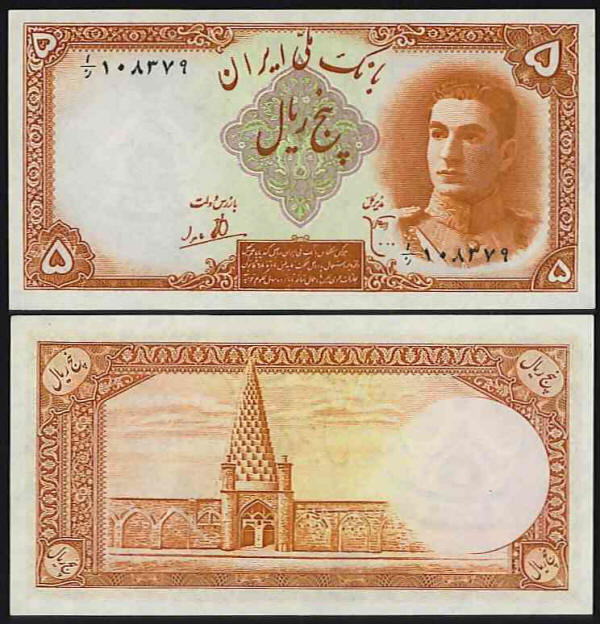 5 Rials banknote Mohammad Reza shah 1944